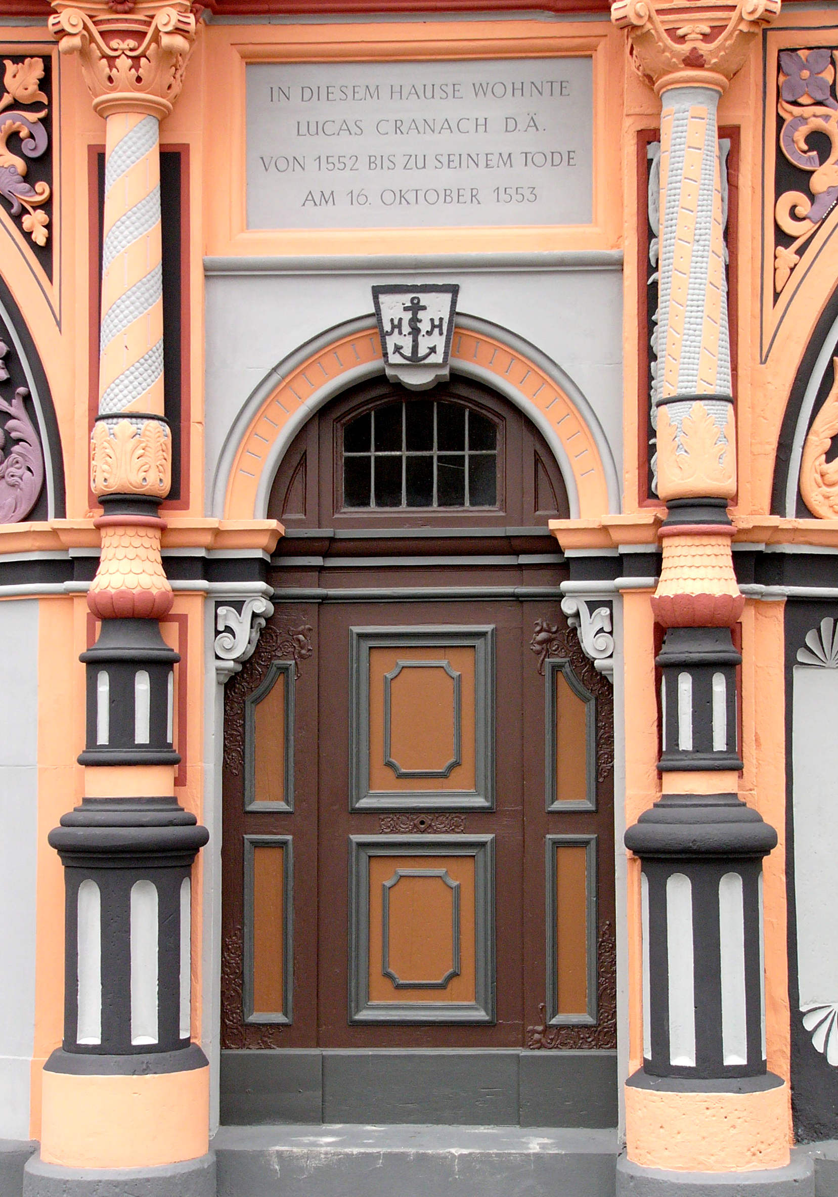 Front door of Cranach house in Weimar, Germany